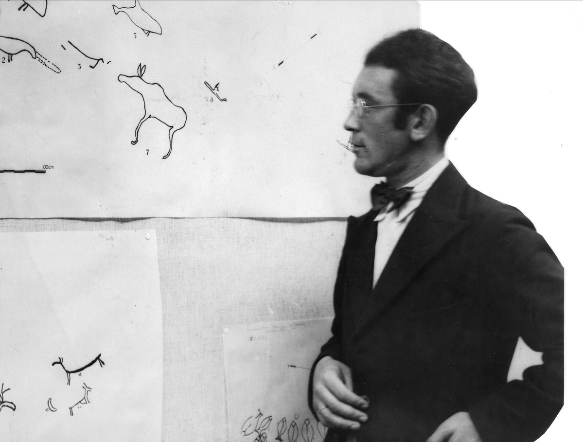 Guttorm Gjessing.. DigitaltMuseum. Retrieved on 24.11 2014.